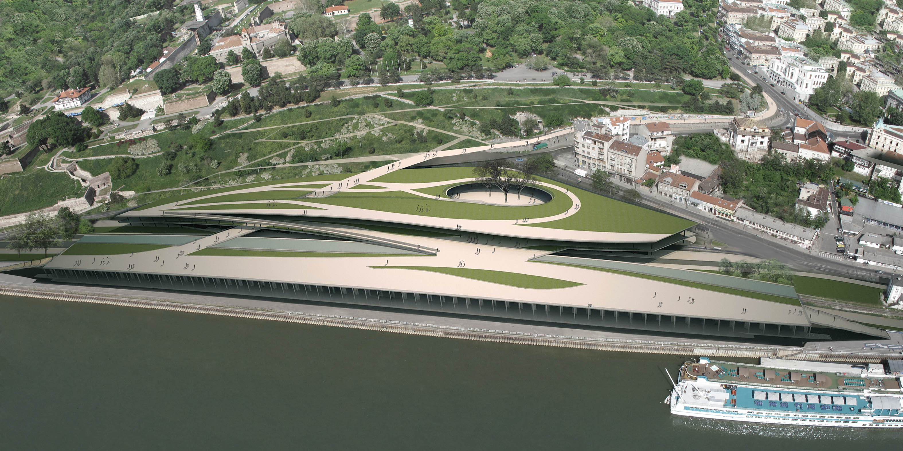 Djordje Alfirevic - Betonhala Waterfront Center